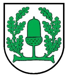 Coat of arms of Östringen